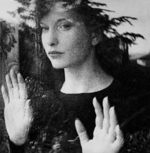 Still from the experimental 1943 short film Meshes of the Afternoon by Maya Deren. The still shows Deren looking out of a window.